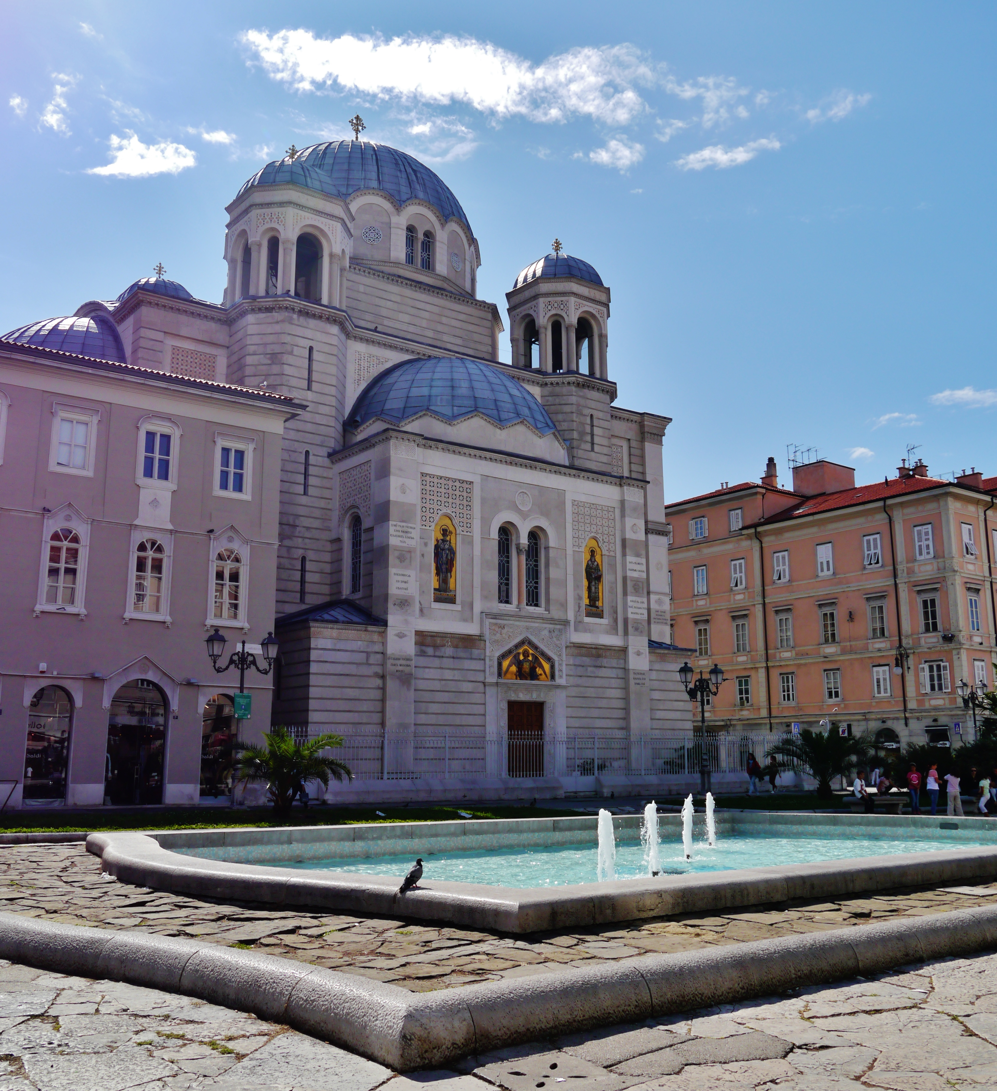 Serbian Orthodox Church San Spiridone, Trieste, Friuli-Venezia Giulia, Italy